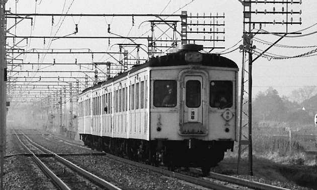 A Tobu 7300 series EMU heads a mixed 7300/7800 series formation on an up Isesaki Line semi express service to Asakusa near Wado Station